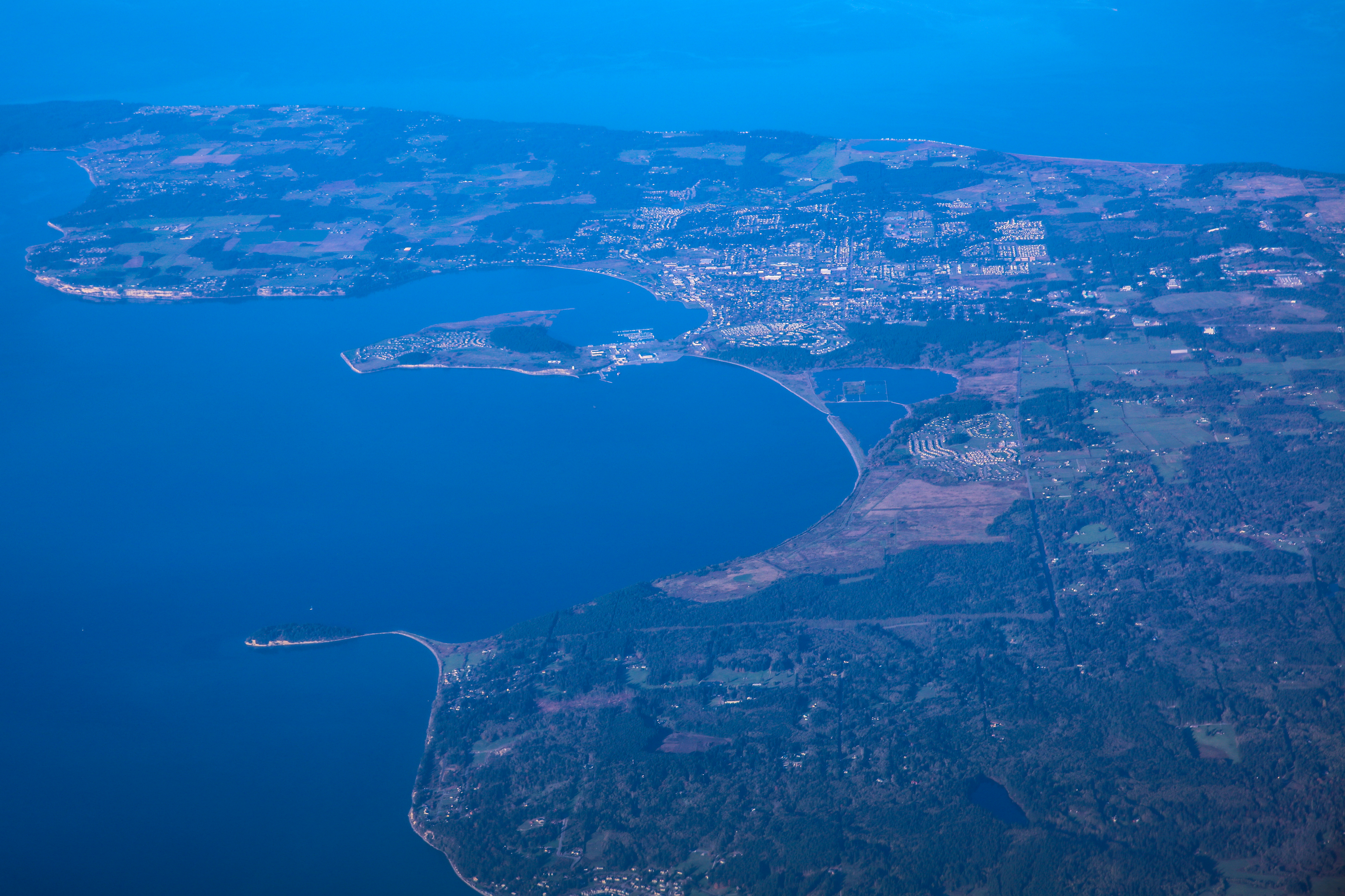 Flight from LAS to YVR...looking down on Oak Harbour on Whidbey Island...